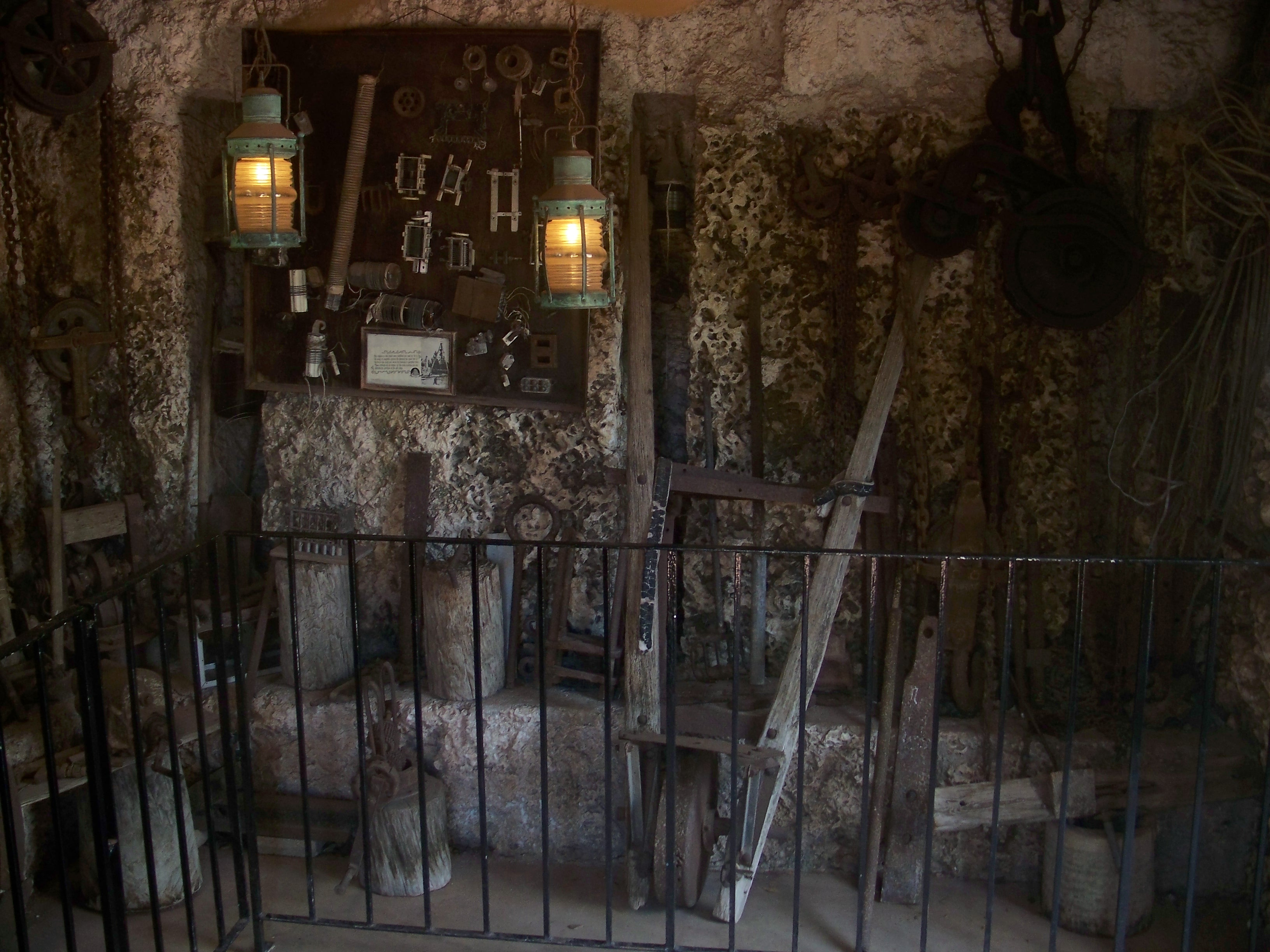 Homestead, Florida: Coral Castle: Living quarters